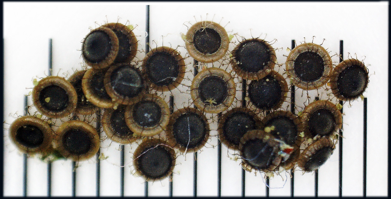 Statoblasts (propagules) of freshwater bryozoan Cristatella mucedo here agglomerated to each other and forming a small floating raft drifting with the wind or likely being swallowed by a duck, a moorhen or other semi-aquatic animals.